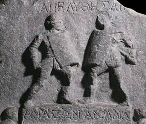 A (nearly) identical image can also be found at